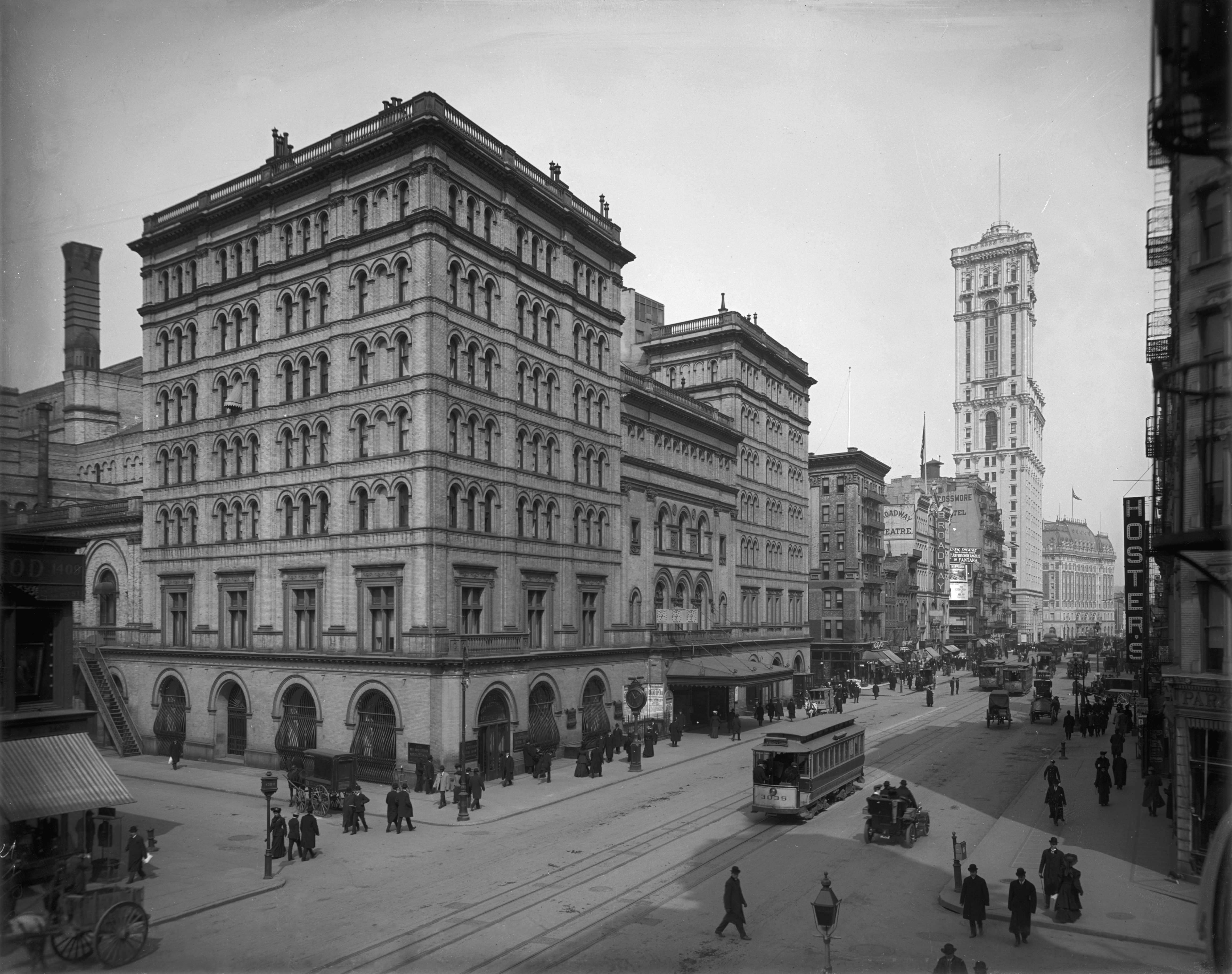 The old Metropolitan Opera House in New York City, 1905